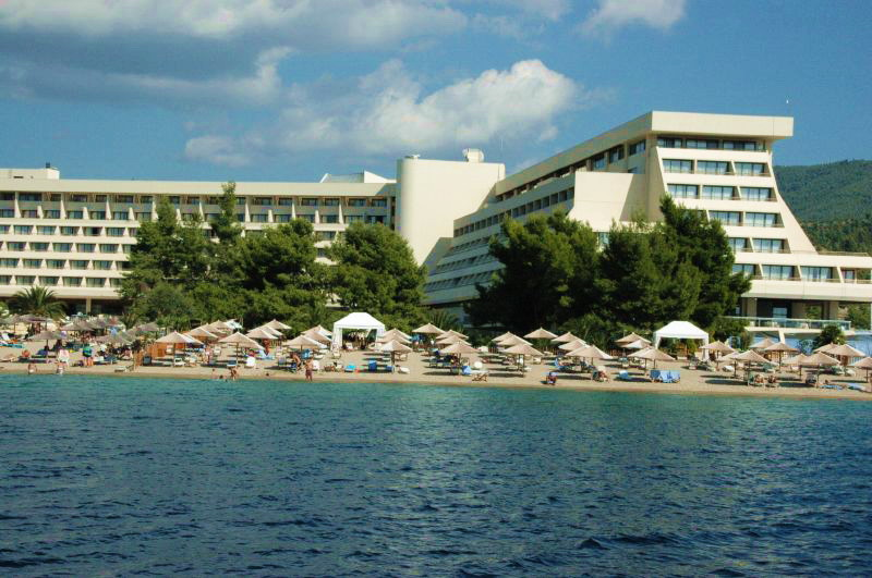 Hotel Meliton, in Porto Carras, Greece.